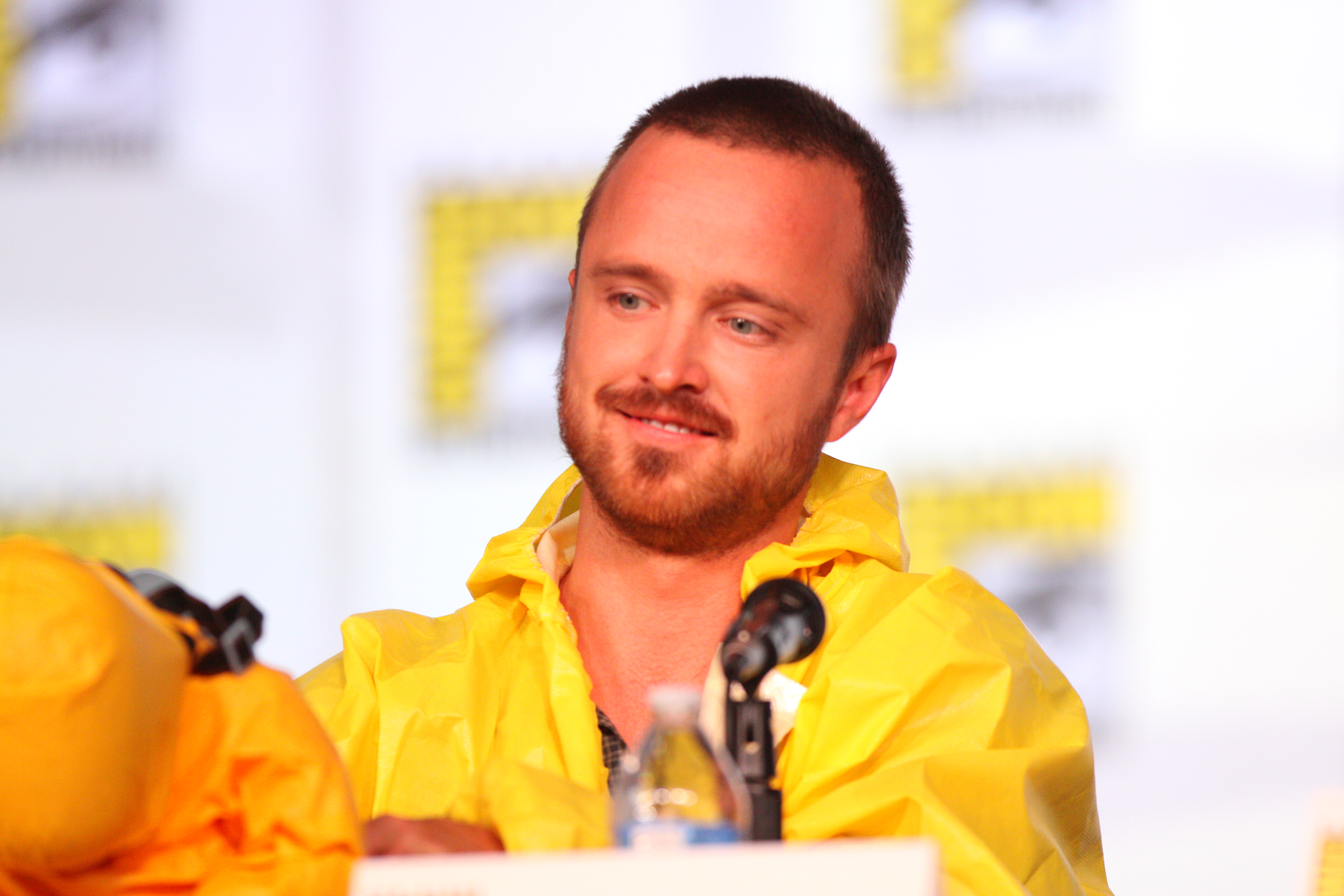 Aaron Paul speaking at the 2012 San Diego Comic-Con International in San Diego, California.